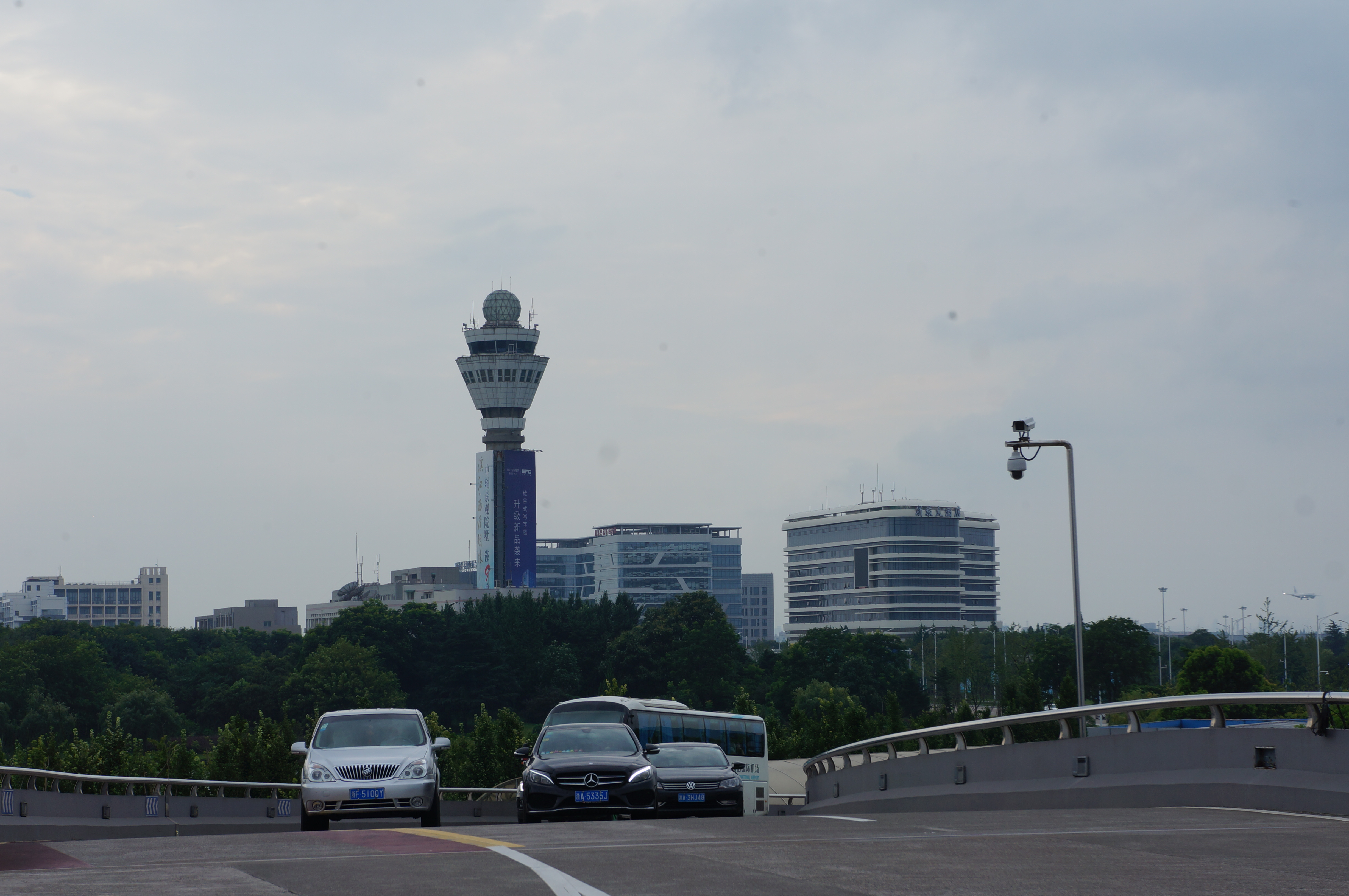 201607 Airport Tower of HGH